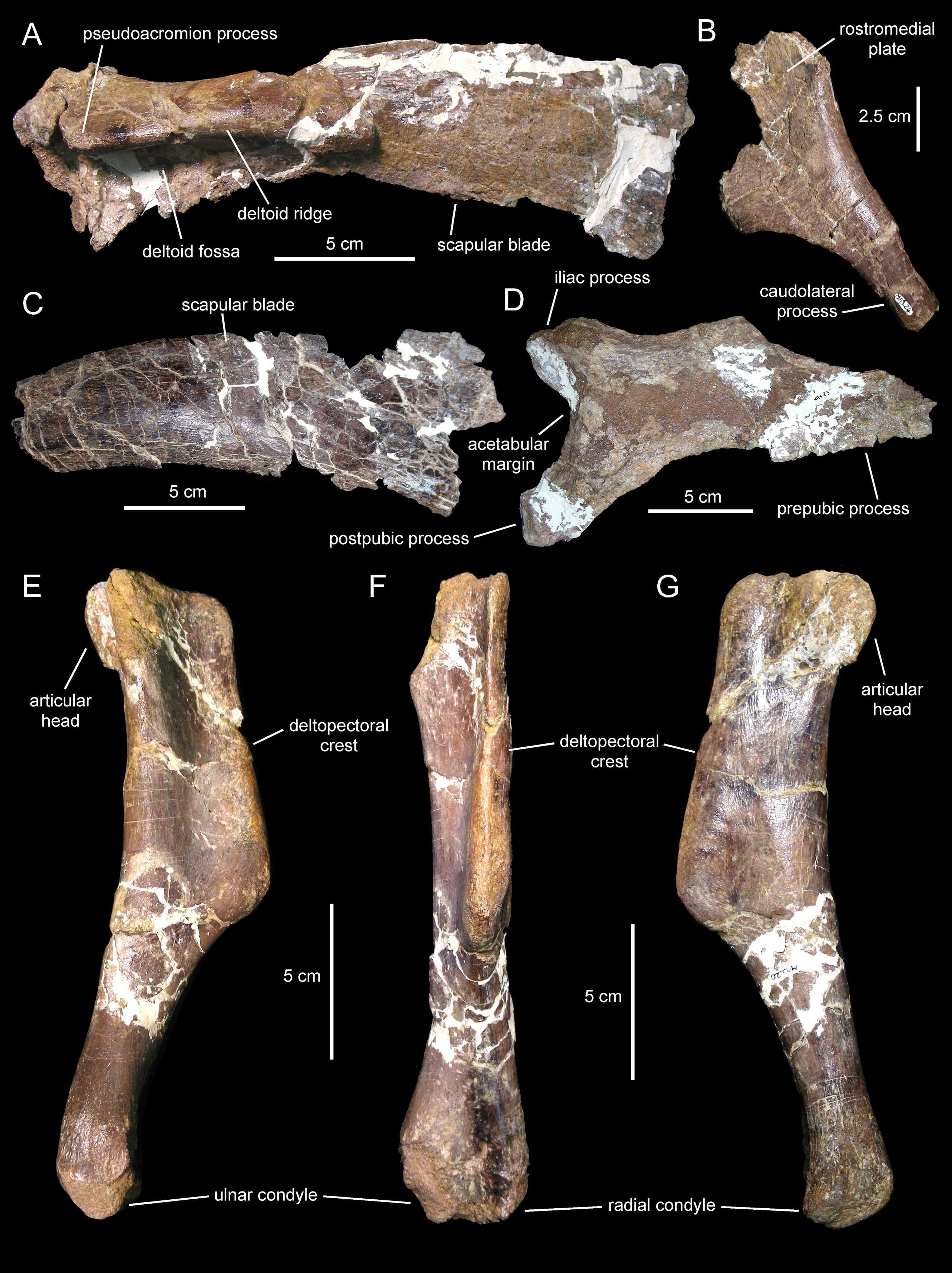 Canardia garonnensis, selected appendicular elements. A. Left scapula (MDE-Ma3–21) in lateral view. B. Left sternal plate (MDE-Ma3–24) in ventrolateral view. C. Distal blade of left scapula (MDE-Ma3–12) in lateral view. D. Right pubis (MDE-Ma3–23) in lateral view. E. Left humerus (MDE-Ma3–20) in medial view. F. Rostral view of same. G. Lateral view of same.